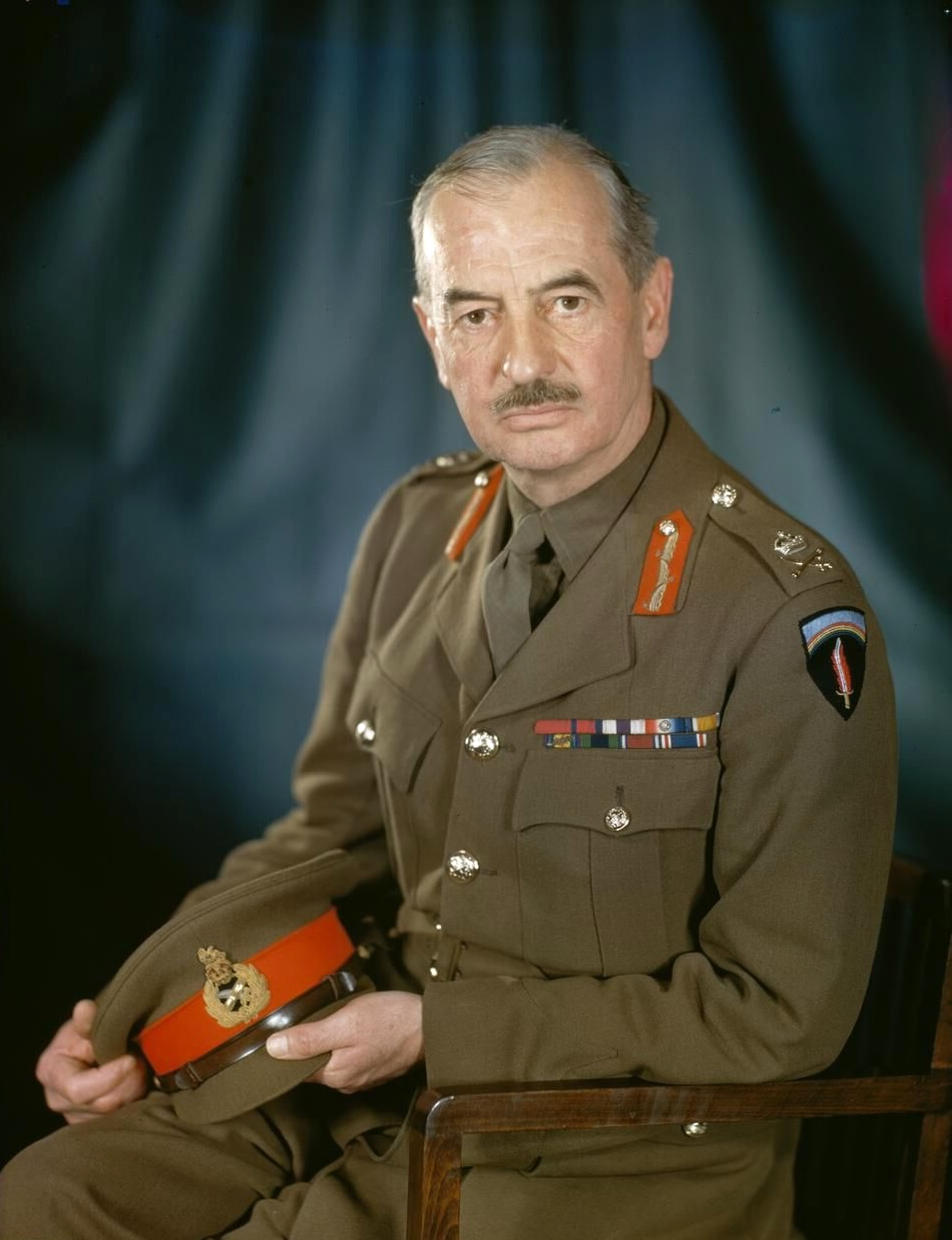 Portrait of Lieutenant General Arthur Grassett